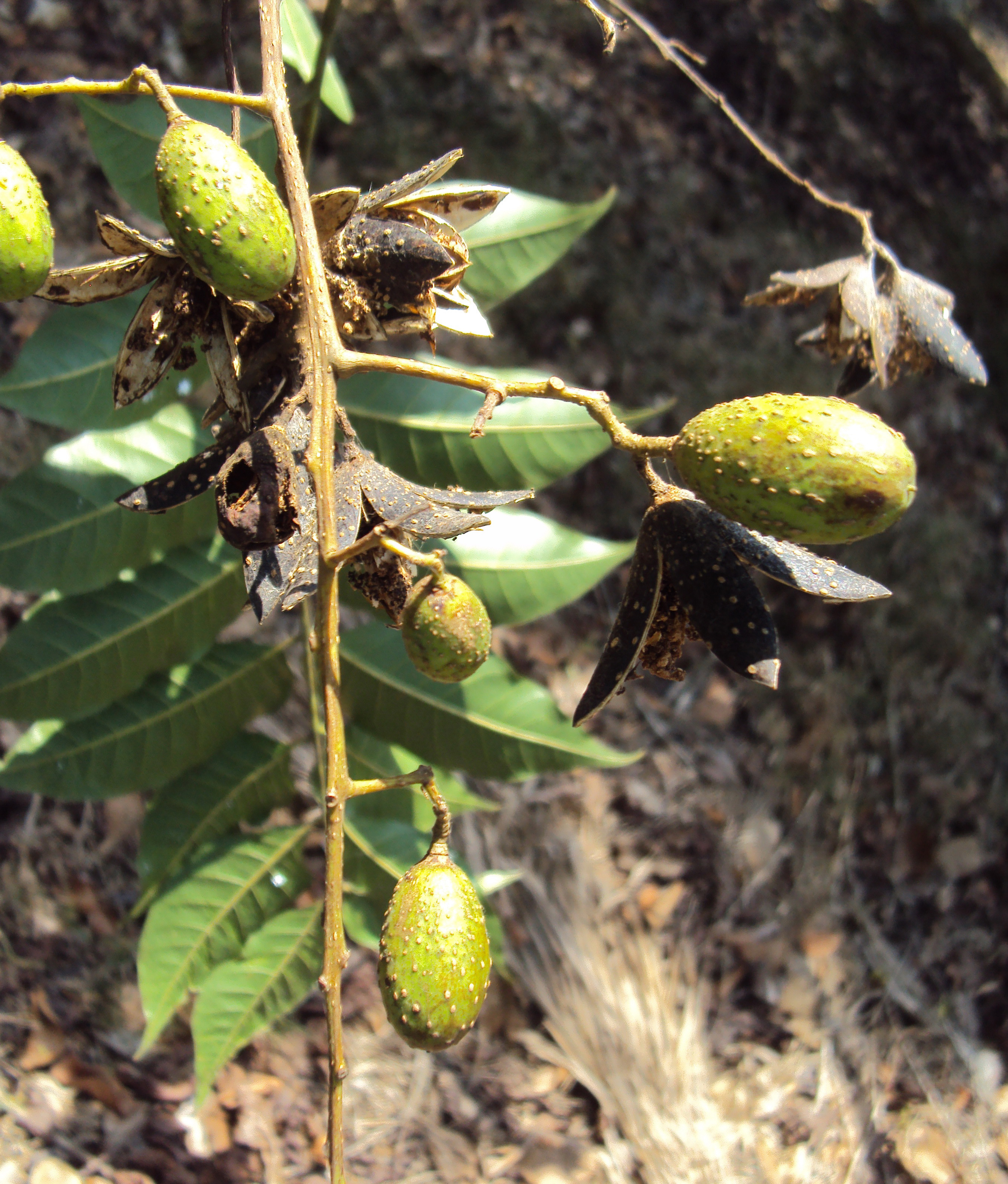 Toona ciliata